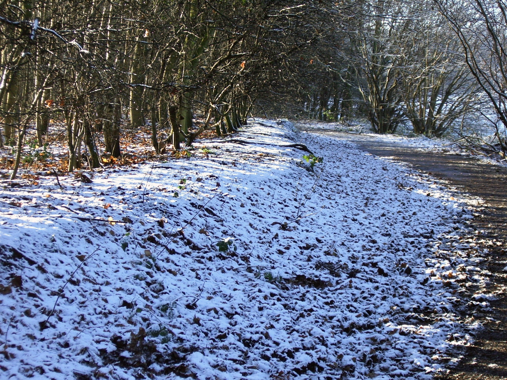 Hawthorn Lane Hawthorn Road is a quiet traffic free road running between Chorlton and Stretford. In the Mersey Valley it can sometimes be difficult to believe you are surrounded by the suburbs of Manchester. Here is part of the Stretford section.